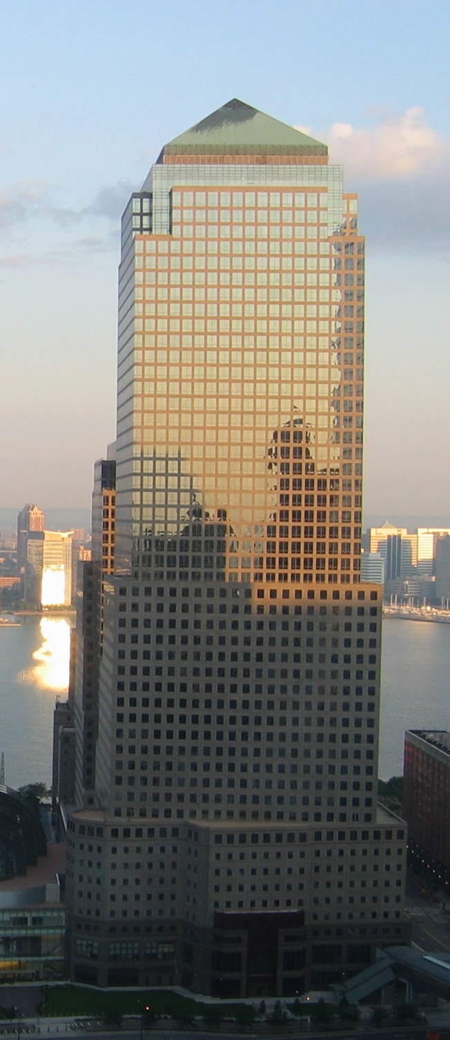 Three World Financial Center in New York City, in July 2006.